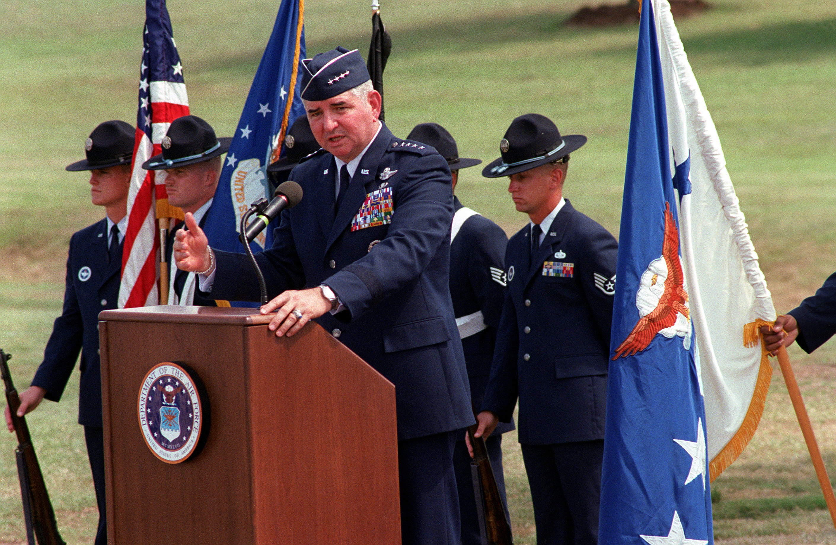 Air Force Chief of Staff General Ronald Fogleman speaks to local dignitaries and Air Force guests during the dedication of the Medal of Honor Monument.